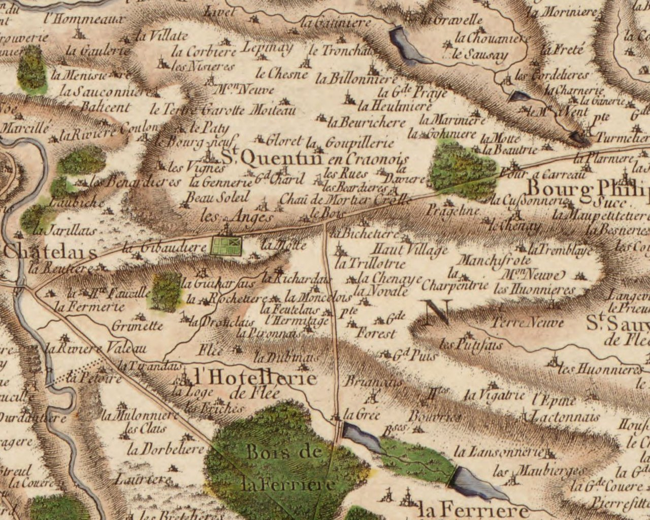 Cassini Map Detail of les Anges (Anjou - France)